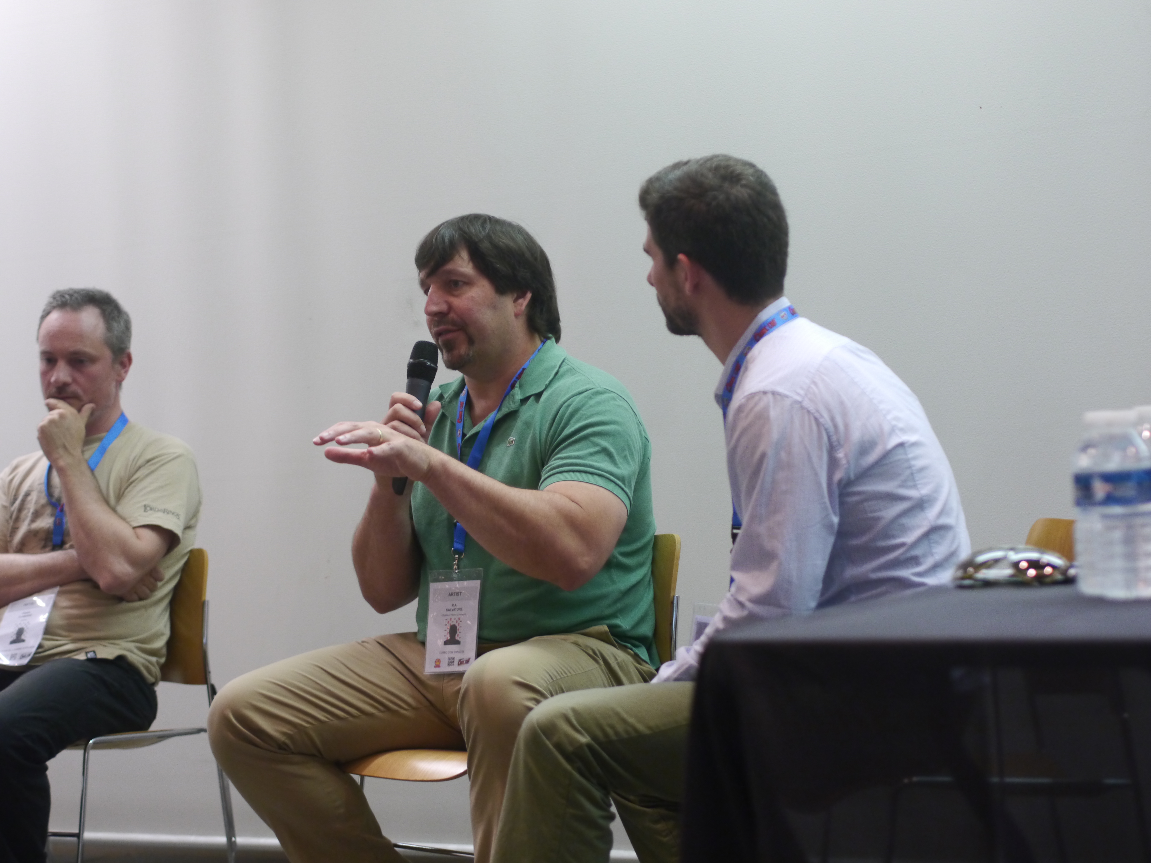 Japan Expo Festival, 14th impact